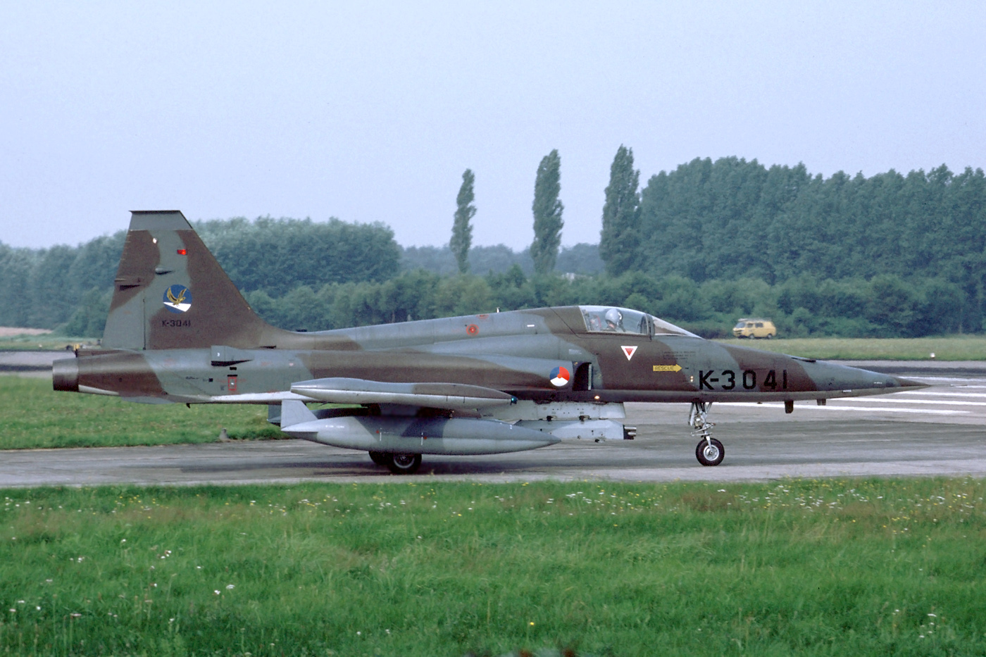 NF-5A of 313 Squadron is taxiing to the runway at Twenthe airbase in August 1984. K-3041 went to the Turkish Air Force and is now preserved in Istanbul (cockpit only).